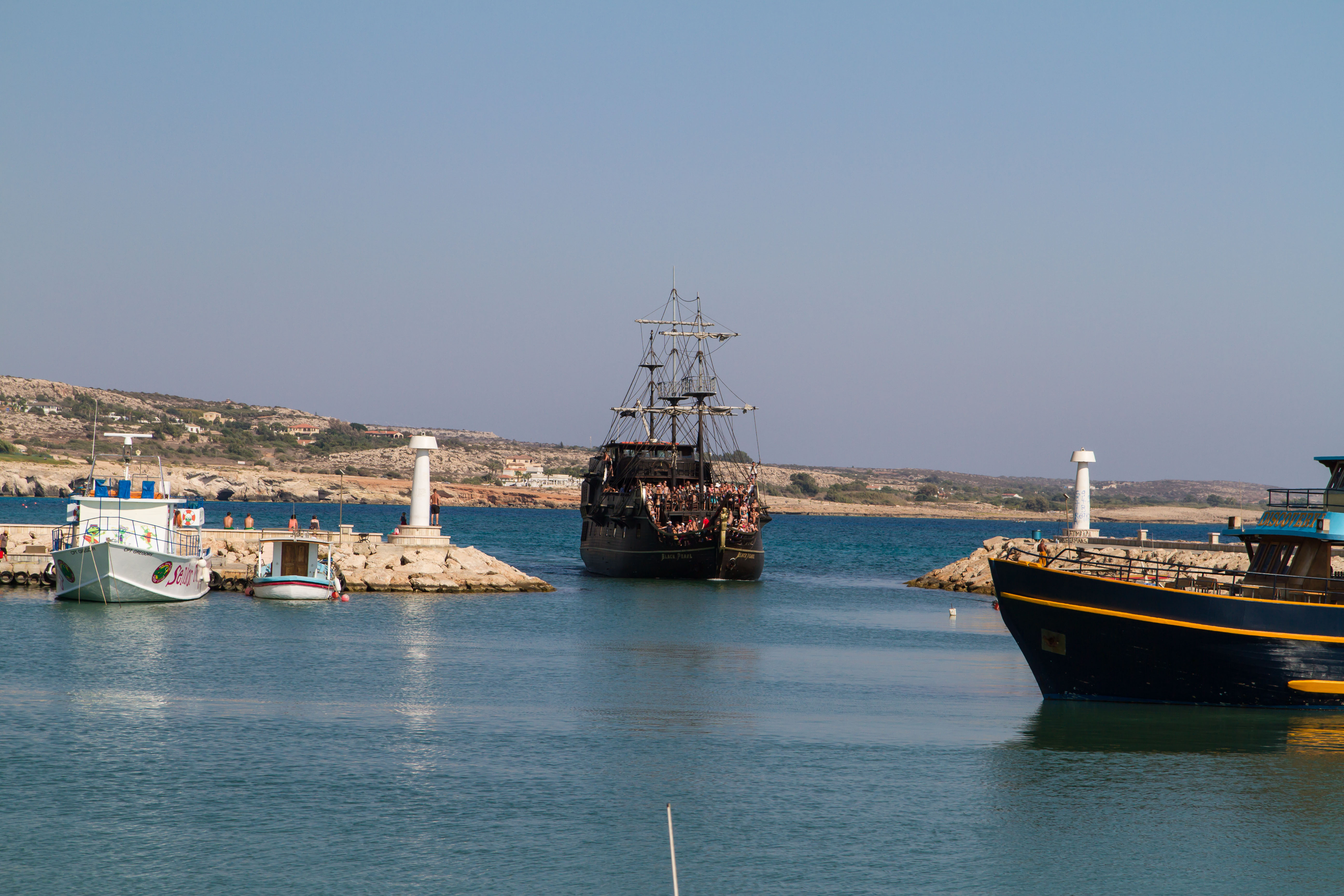 1st October, Ayia Napa, Cyprus